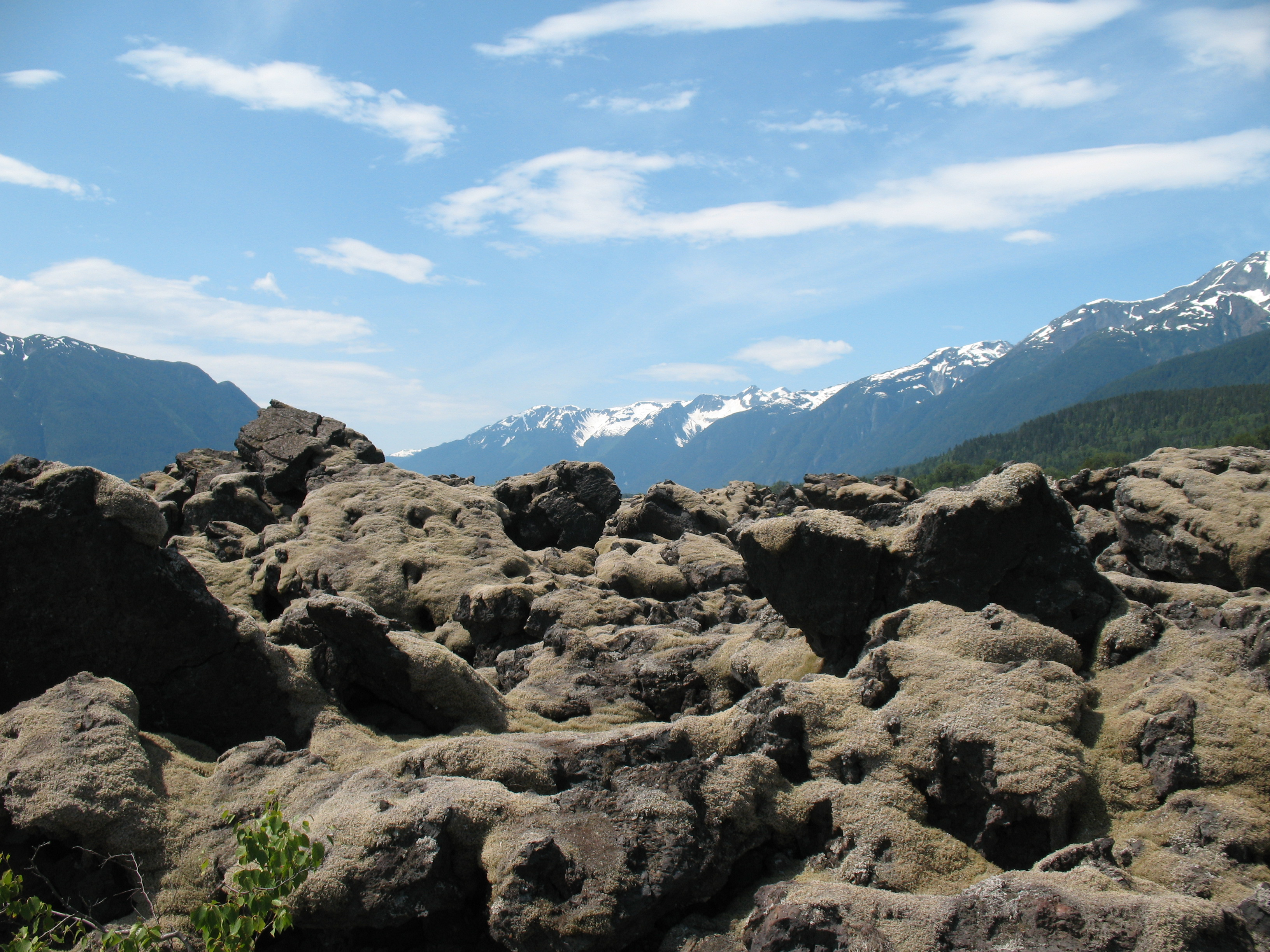 lava field, Nisgaa territory